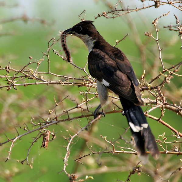 Pied Cuckoo, Pied Crested Cuckoo, or Jacobin Cuckoo Clamator jacobinus in Kolleru, Andhra Pradesh, India.